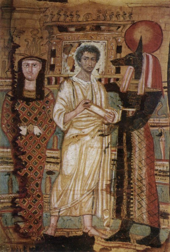 Fayum mummy portrait